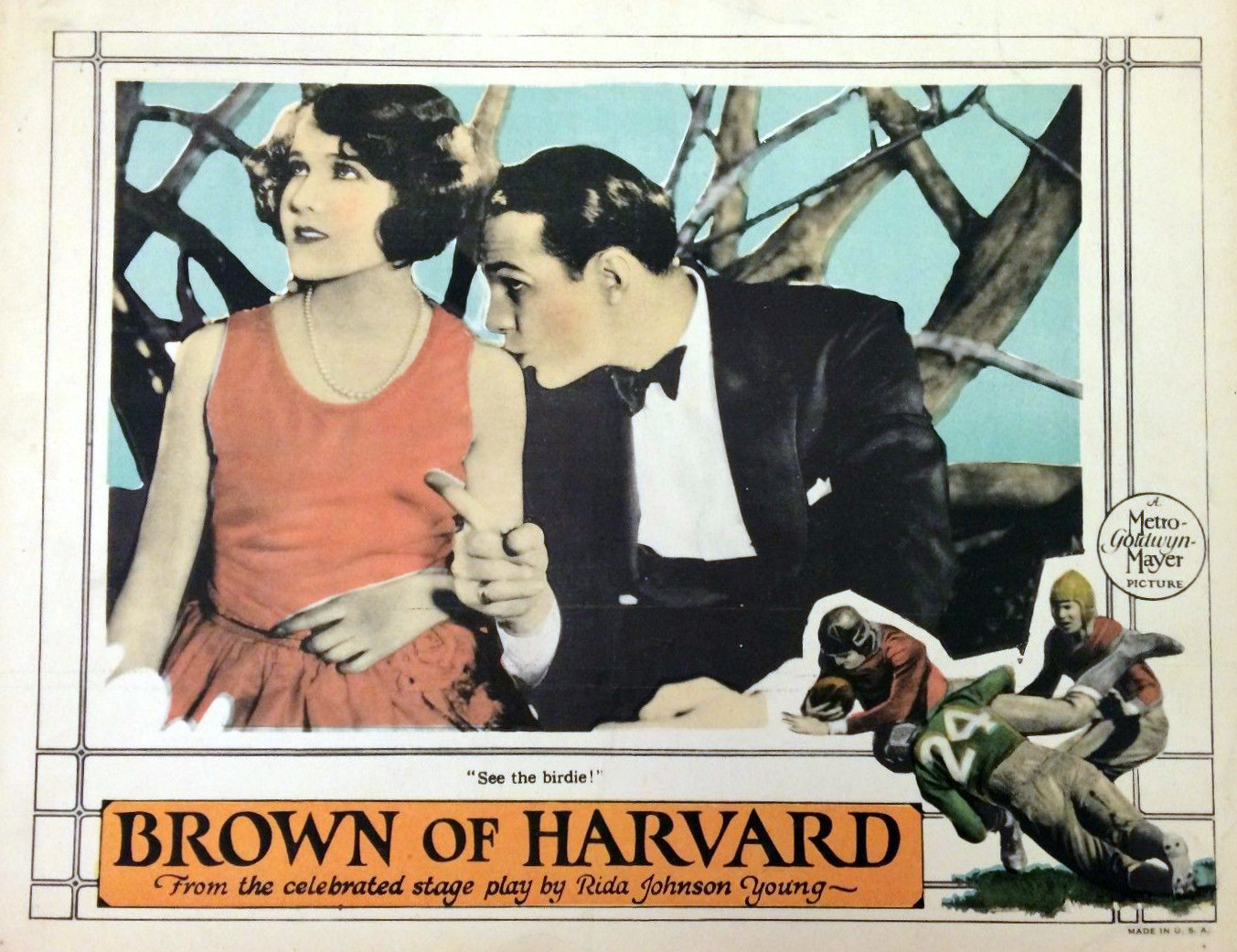 Lobby card for the American drama film Brown of Harvard (1926).